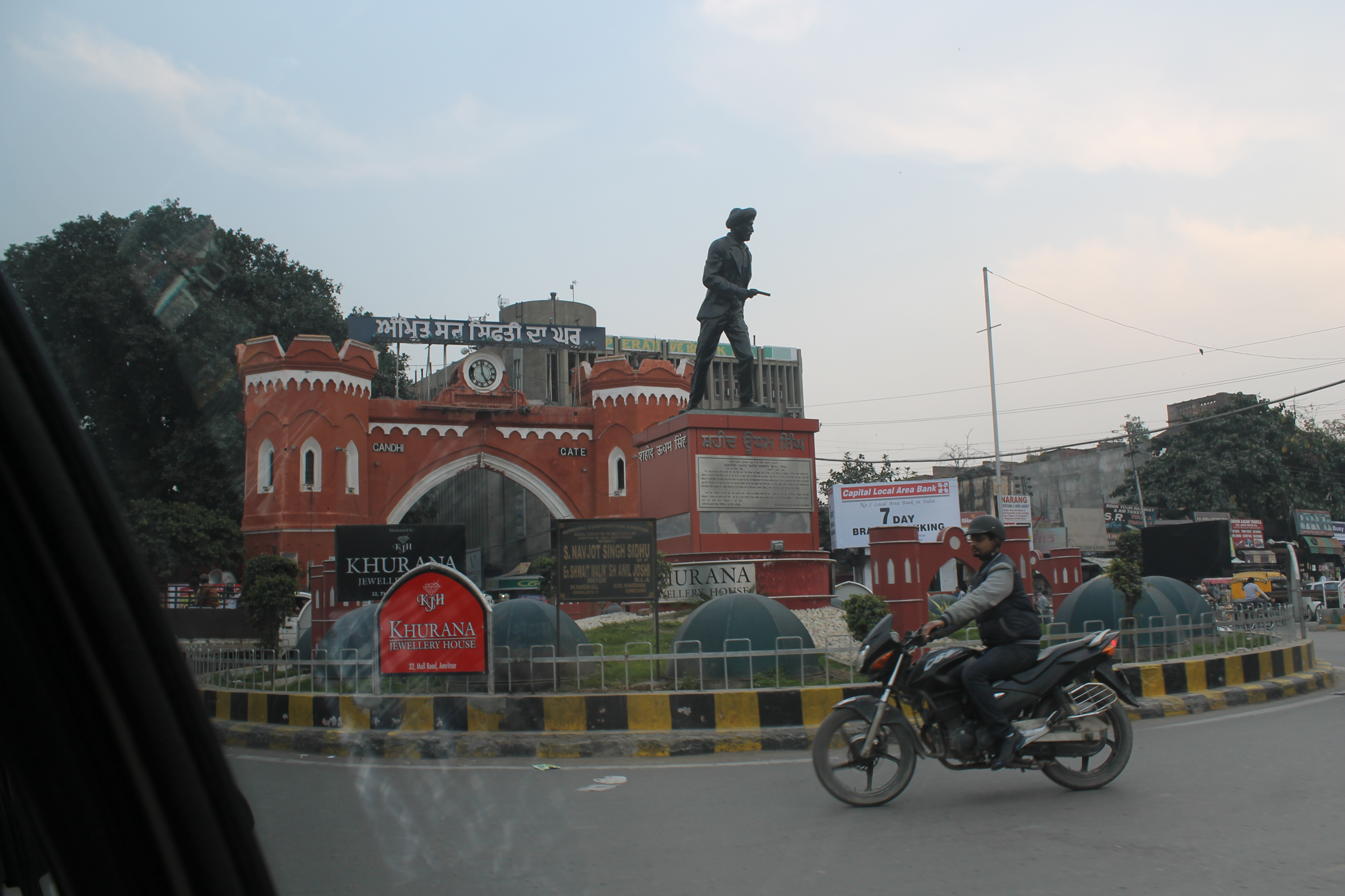 Statue of Shaheed Udham Singh in Amritsar.